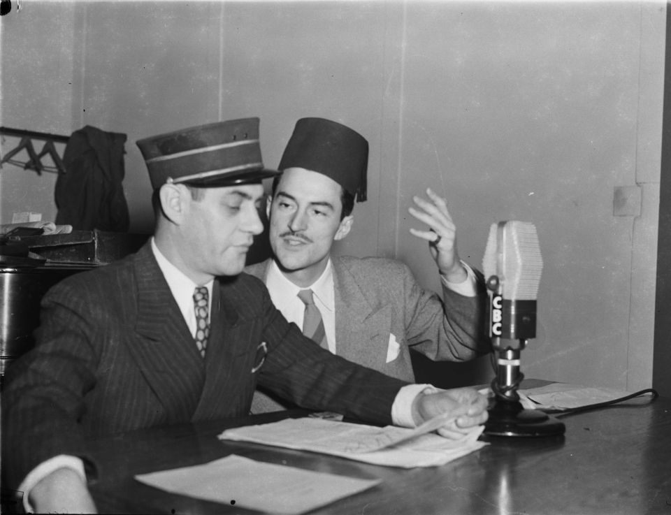 For documentary purposes the original description provided by BAnQ has been retained. Additional descriptive text may be added by Wikimedians with the wiki description = parameter, but please do not modify the other fields.